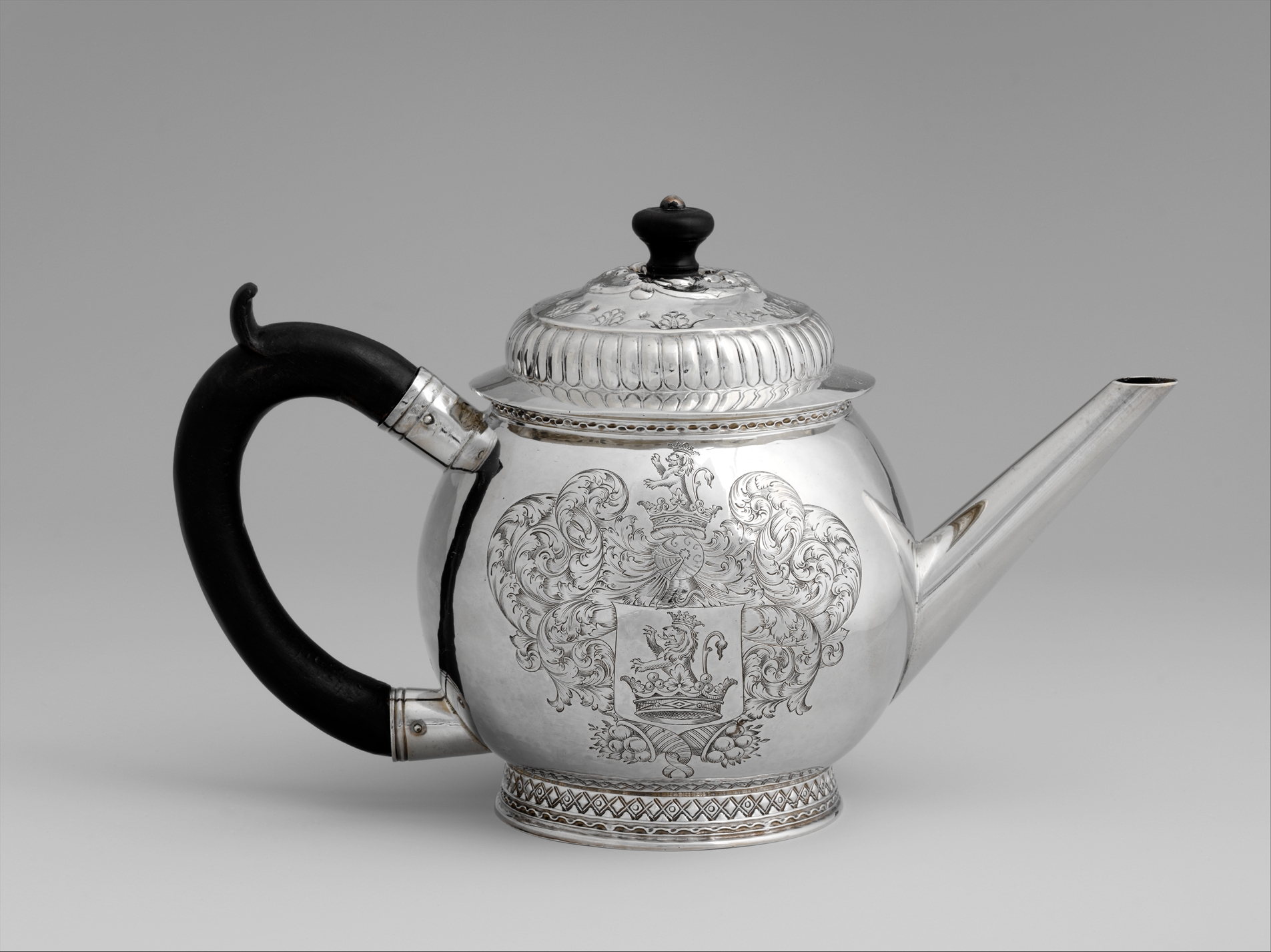 American; Teapot; Silver